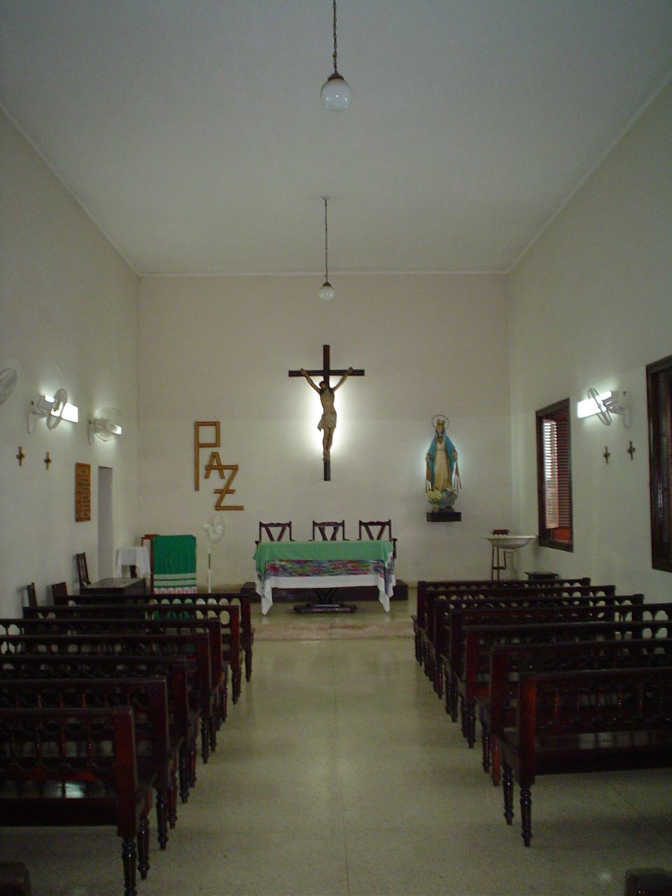 I took pic in August 2007